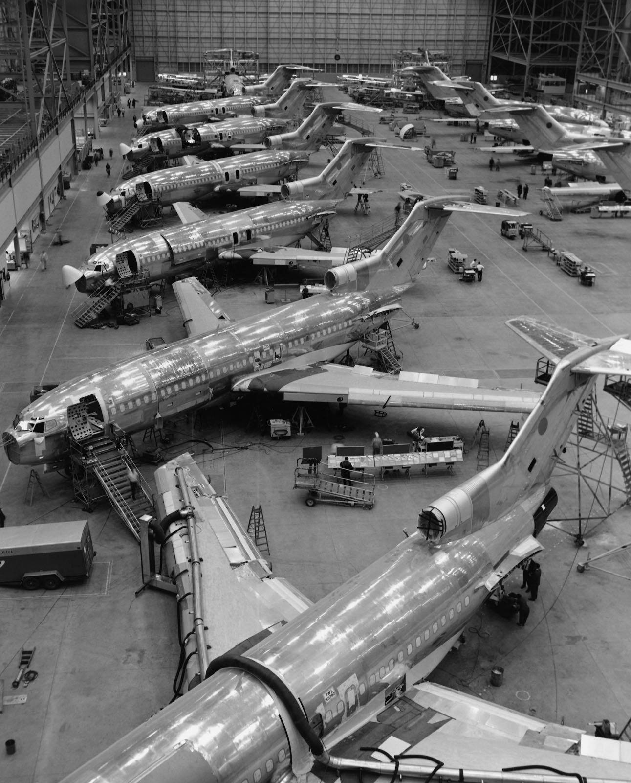 Black and white image of Boeing 727 production.